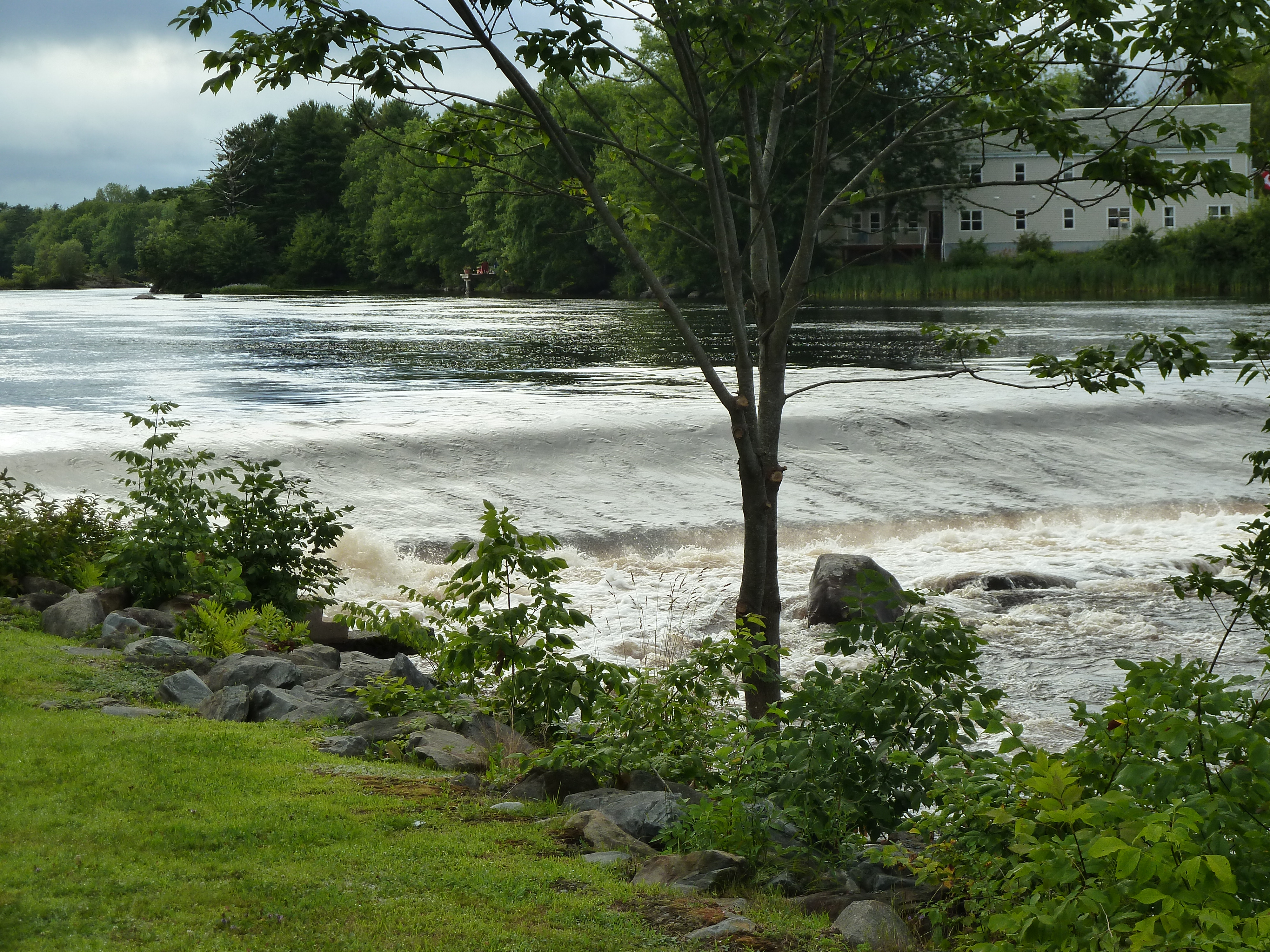 July 30, 2011